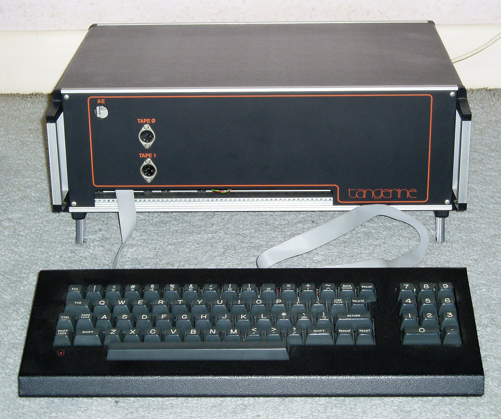 A Tangerine Microtan 65 system in the full System Rack. Picture of my own Microtan 65 system taken by me Ian Dunster 14:33, 30 September 2006 (UTC)